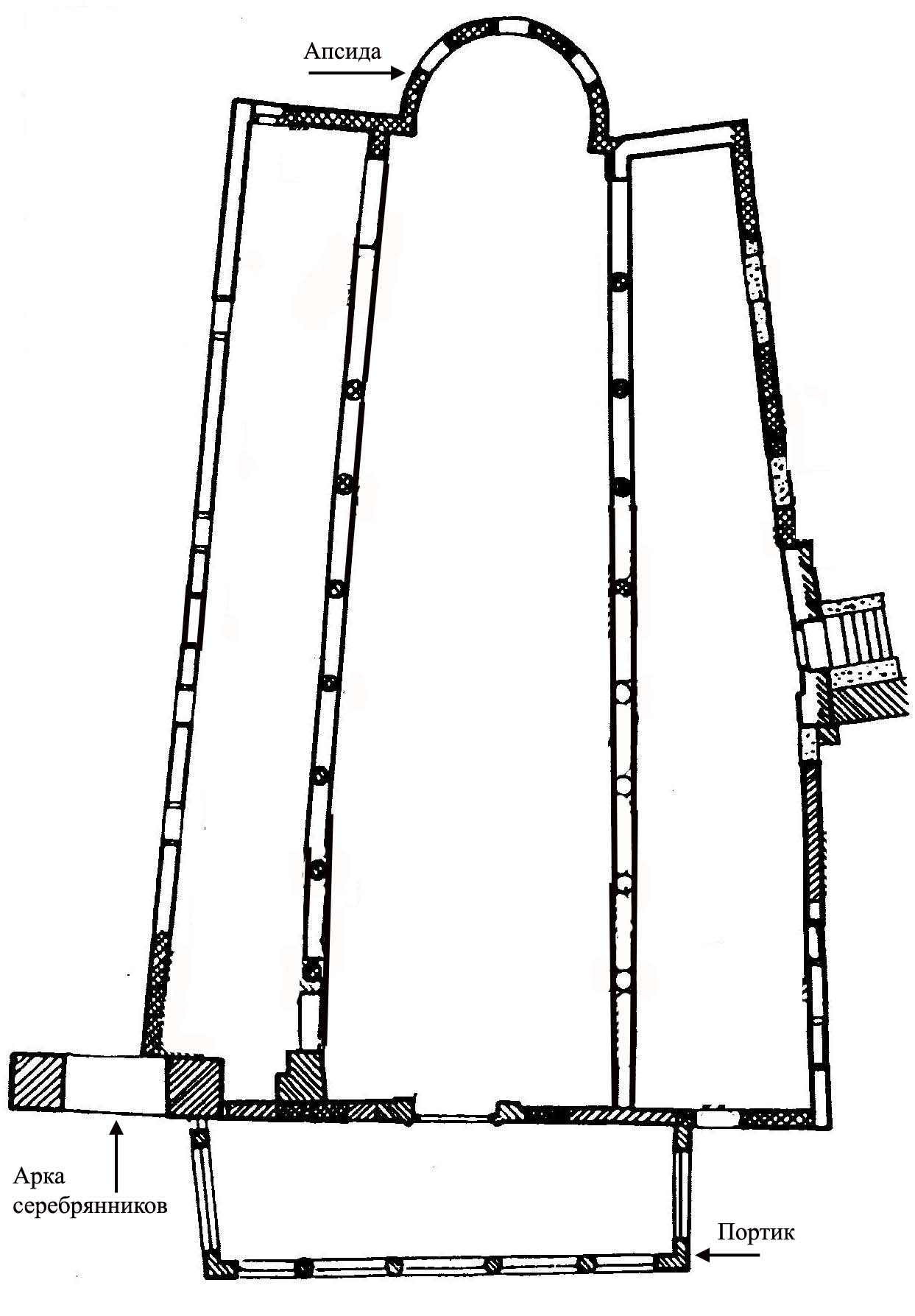 Plan of Roman basilica San-Giorgio-in-Velabro